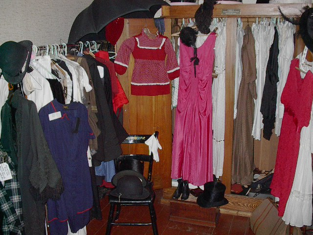 Mauston Wisconsin's Boorman House Vintage Clothing